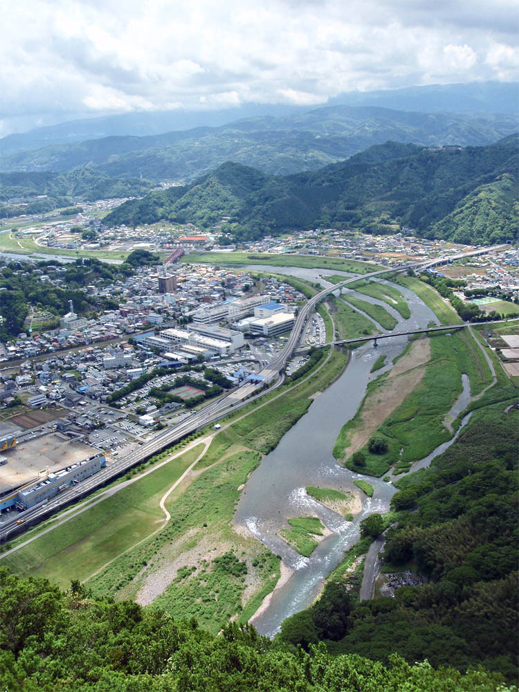 The SSE view from the top of Joyama in Izunokuni, Shizuoka Prefecture, Japan.